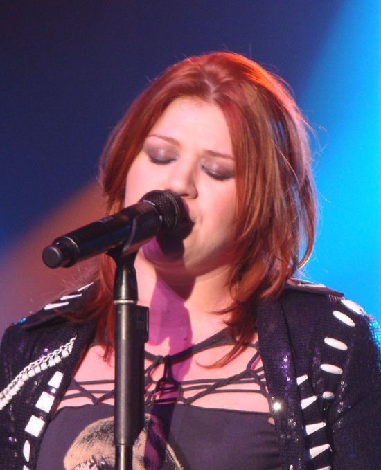 Kelly Clarkson performing live 2012 (All I Ever Wanted Tour)